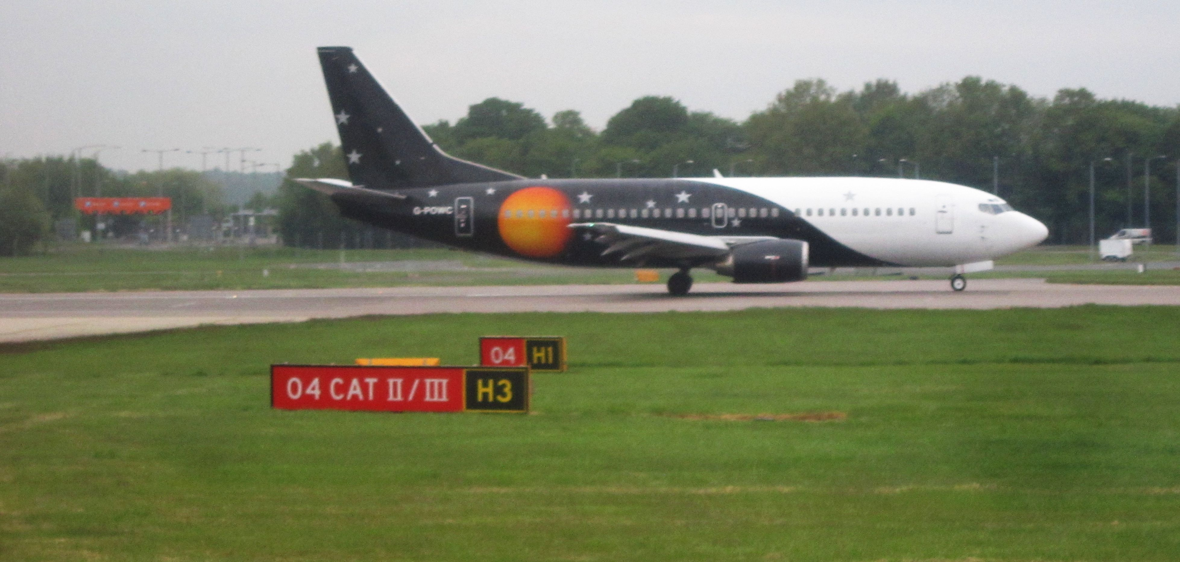 Titan Airways Boeing 737-300 on a CAT II/III runway at London Stansted Airport